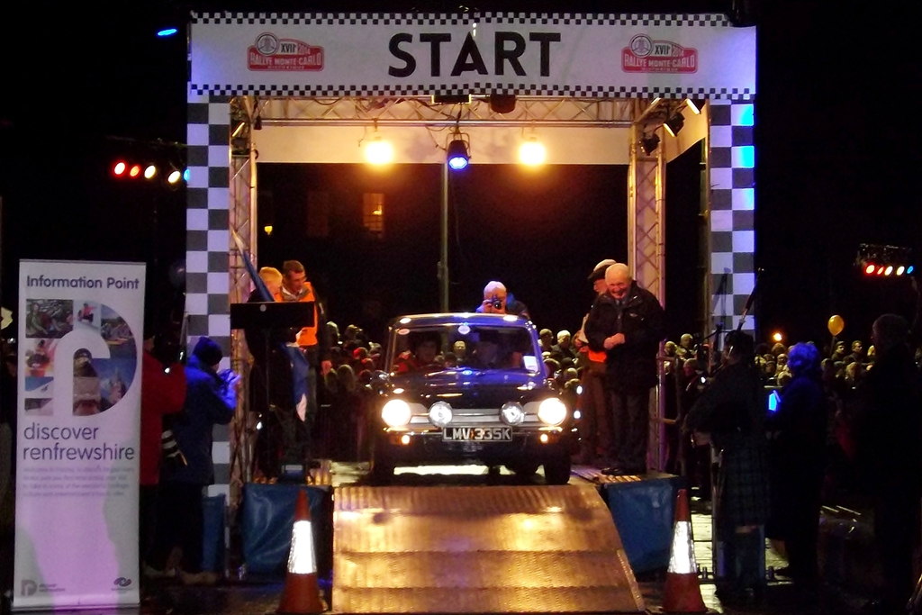 Hillman Imp on the Start Ramp The Rallye Monte Carlo Historique XVII started from Paisley Abbey on 23rd January 2014, the only UK starting point for this event